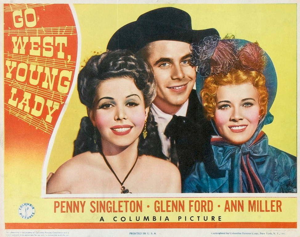 Poster for the movie Go West, Young Lady.